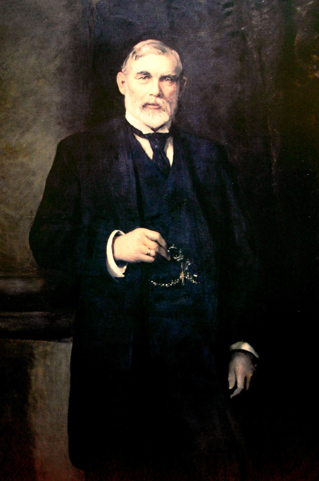 Portrait of Sir Julius Charles Wernher, 1st Baronet (9 April 1850 – 21 May 1912)